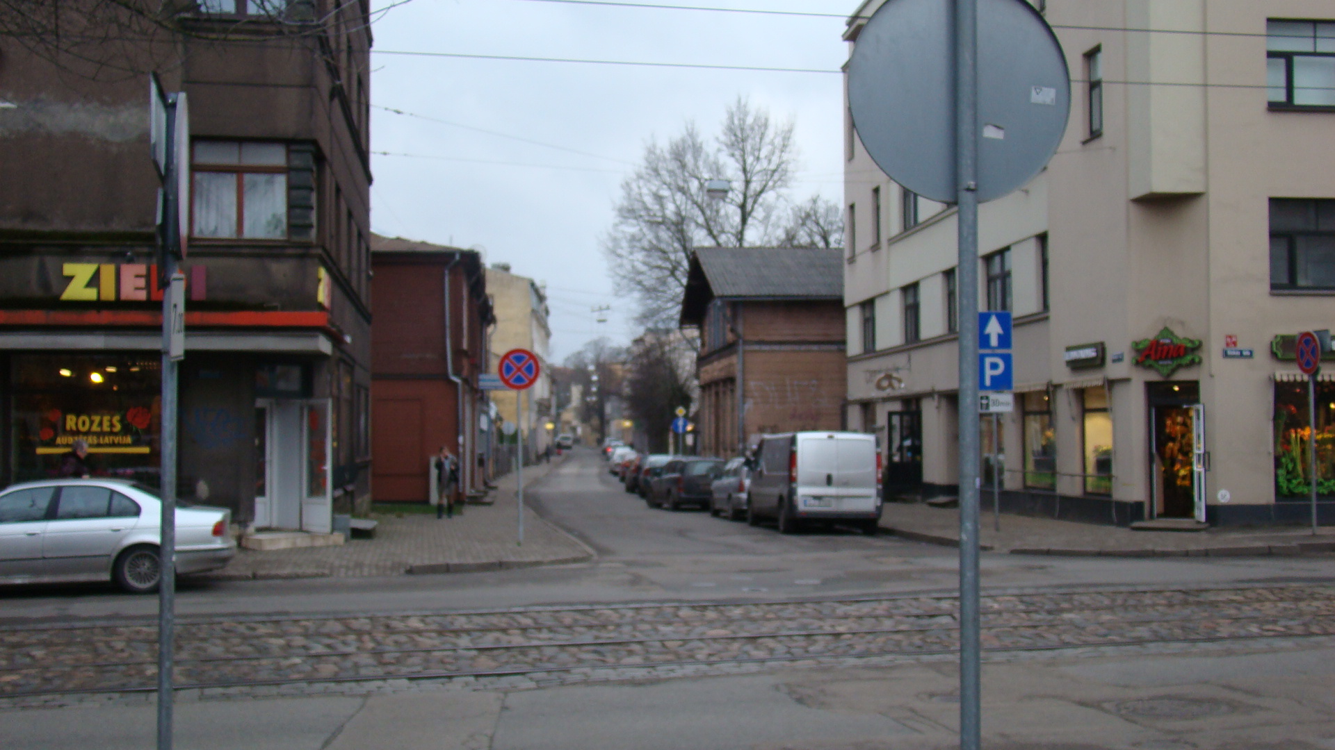 Nometņu and Slokas street intersection in Riga